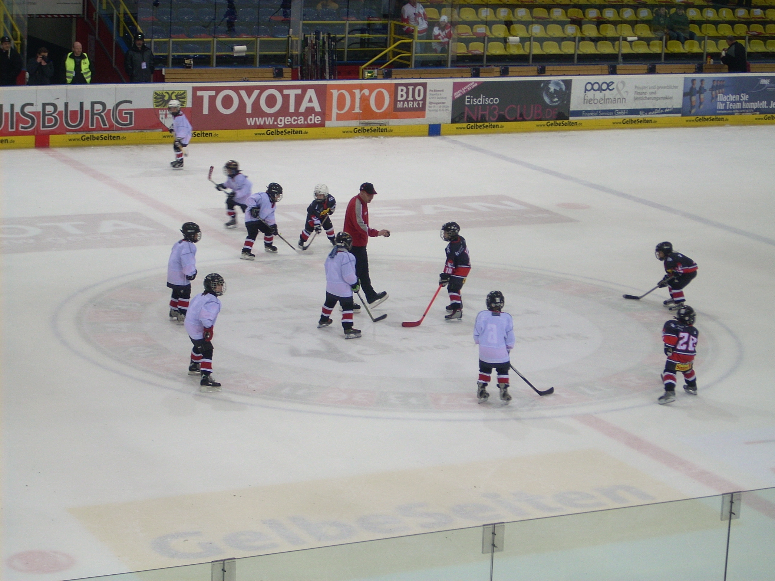 Junior Team of Duisburg Foxes